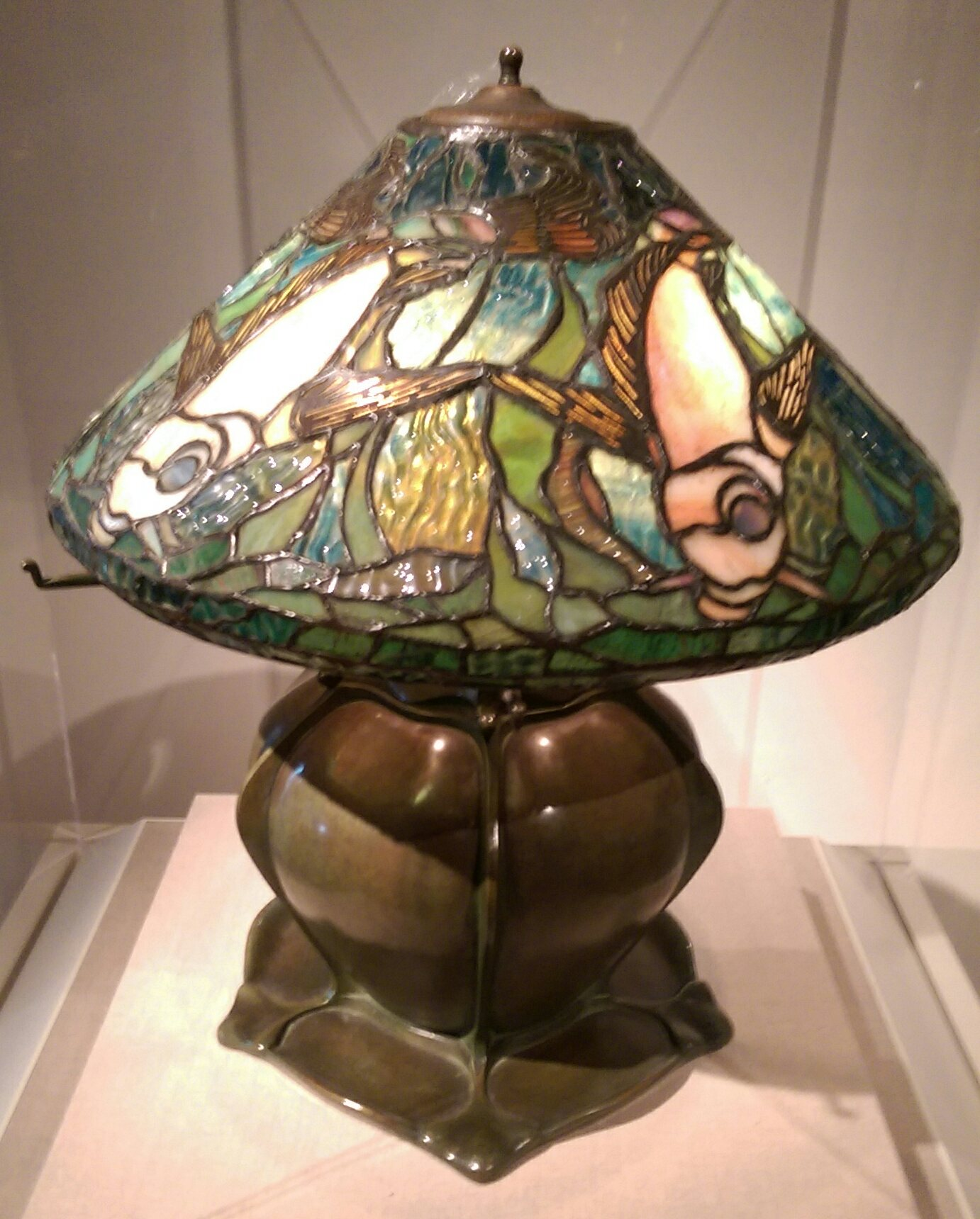 A Louis Comfort Tiffany table lamp dated approximately 1905, on display at the de Young Museum in San Francisco. Photo by Jim Heaphy.